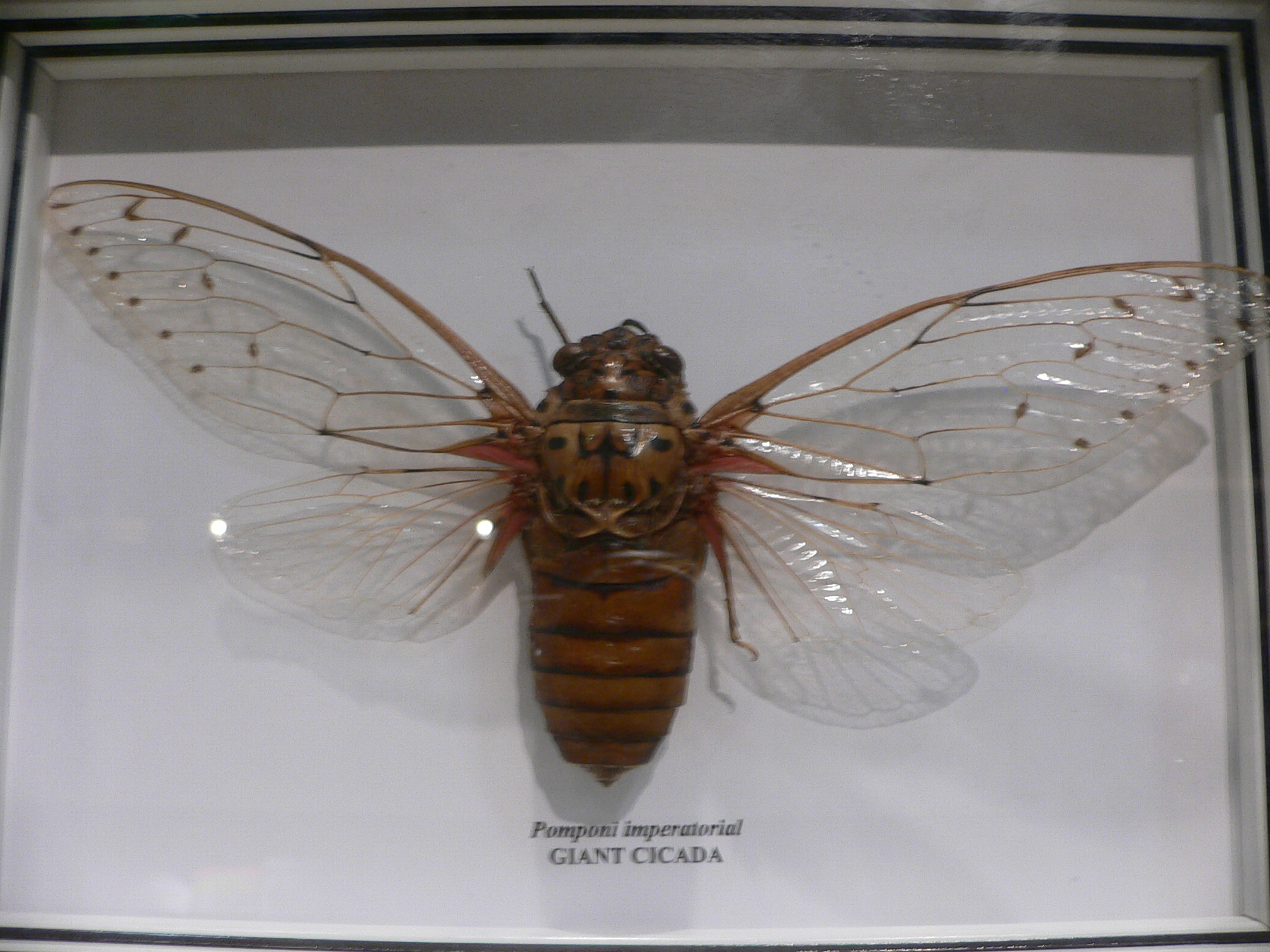 Pictures taken by myself at the Audubon Insectarium